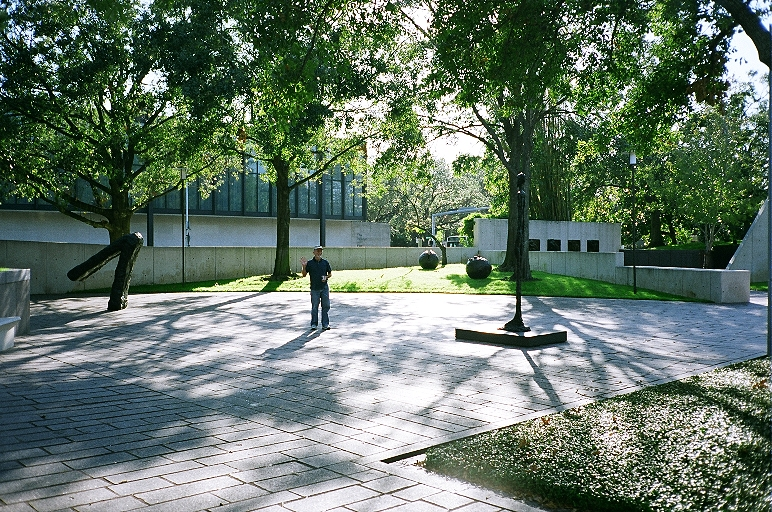 Museum of Fine Arts Houston